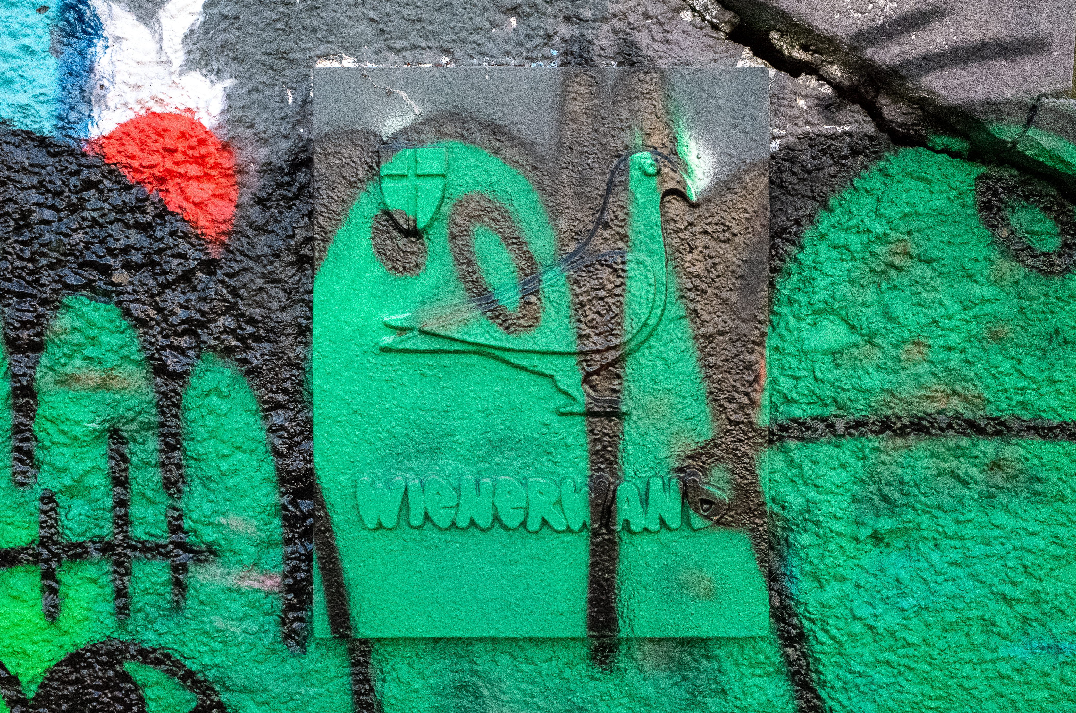 Wienerwand plaque, Fritz-Imhof-Park, Vienna, Austria